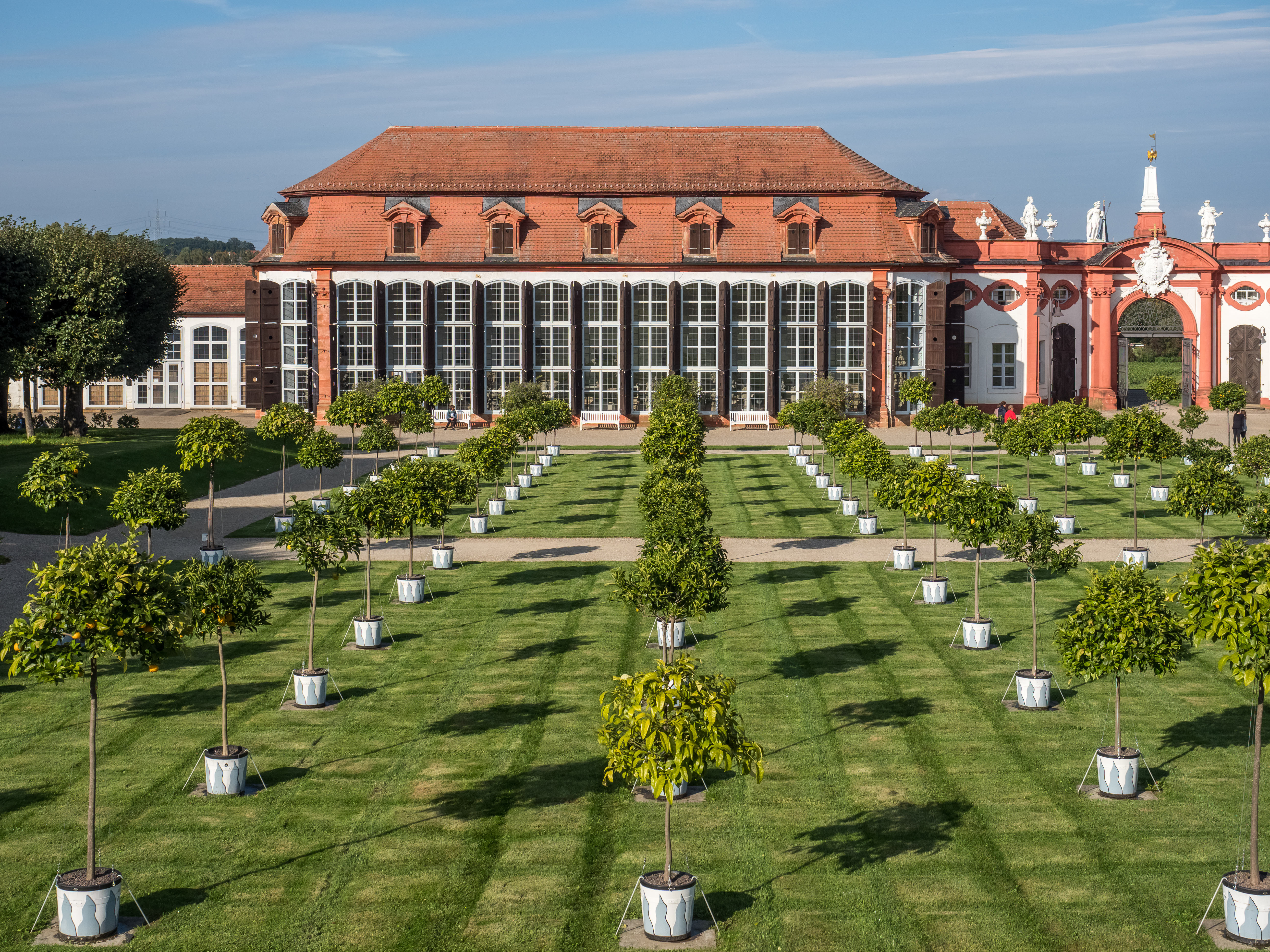 Orangery of Seehof Castle in Memmelsdorf